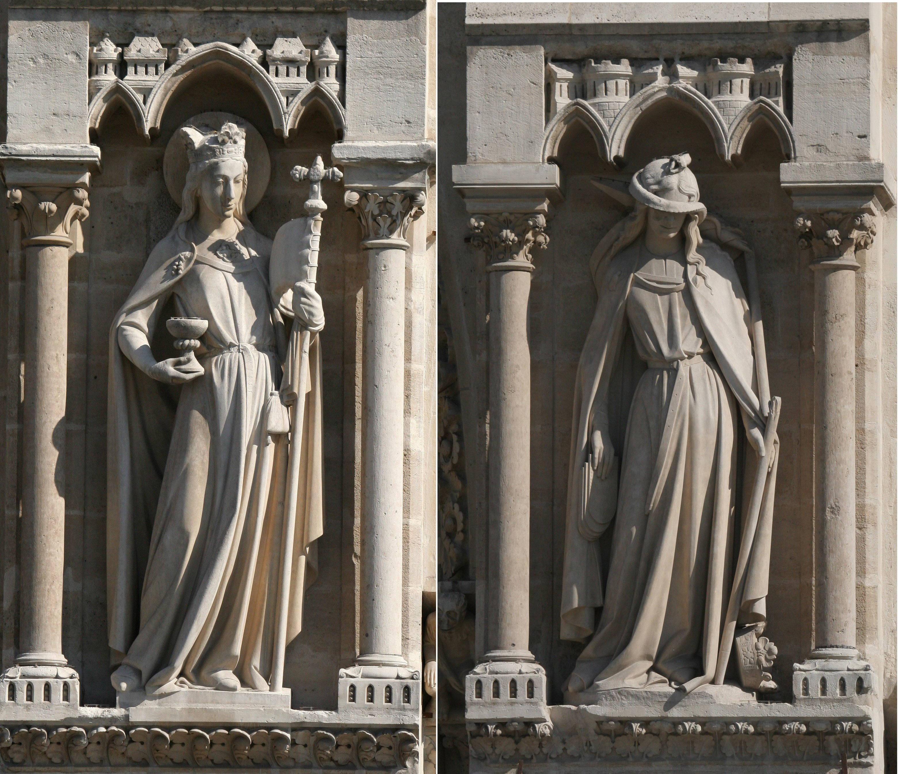 Notre-Dame de Paris. 3rd statue (from left to right) on the West Entrance: the Synagogue. Author: Nitot